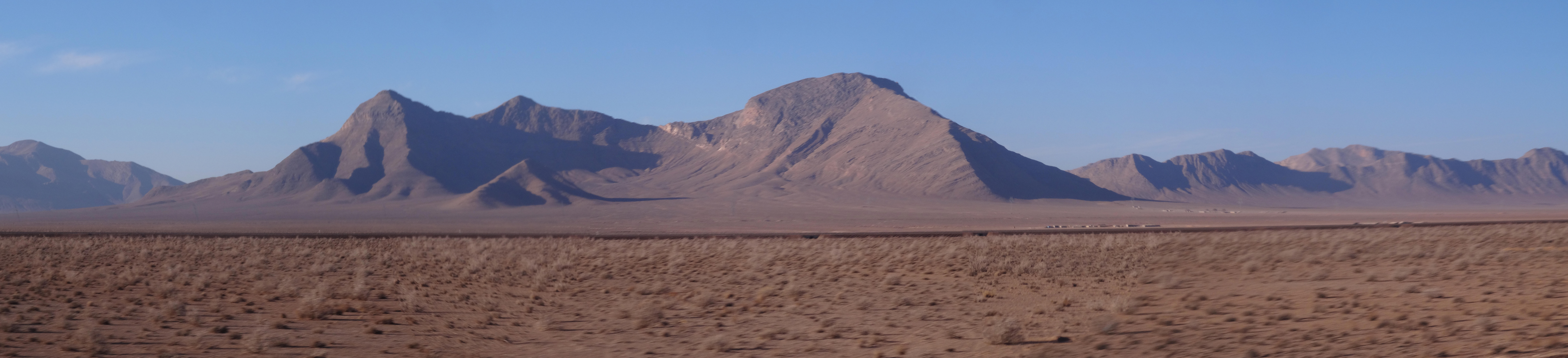 Bajada en el desierto de Irán.